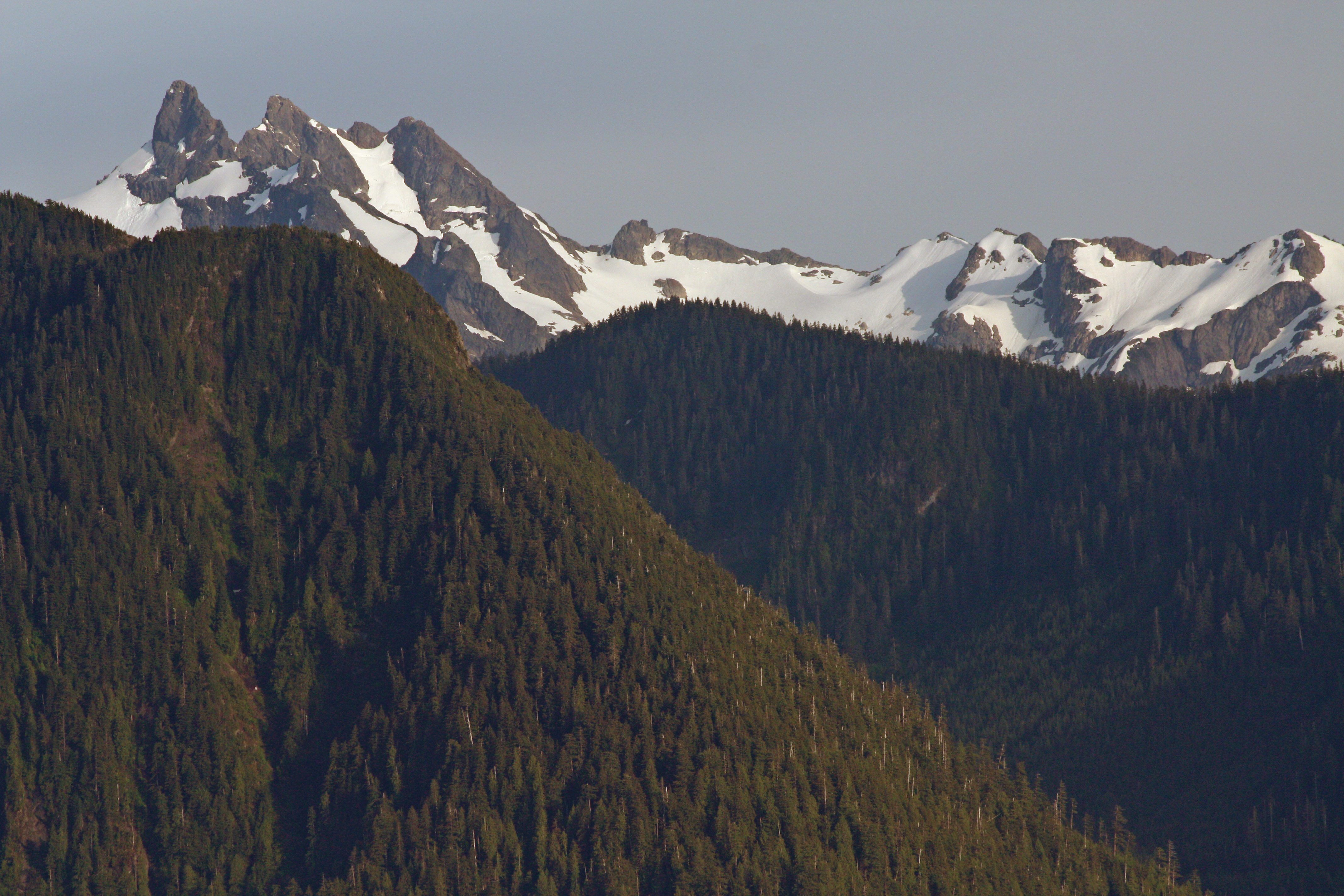 Three Fingers (6850 feet, 2088 meters, left)